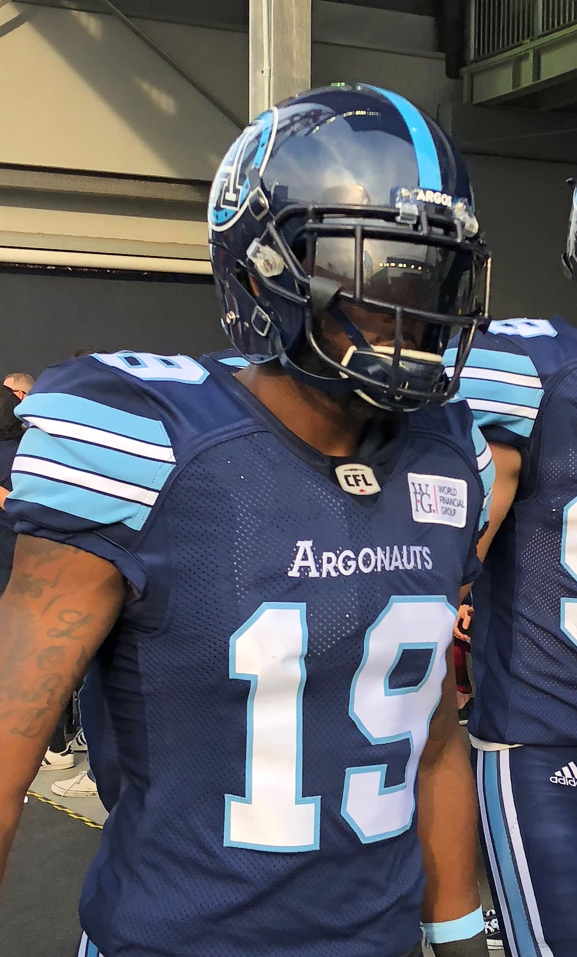 S. J. Green, Slotback for the Toronto Argonauts.